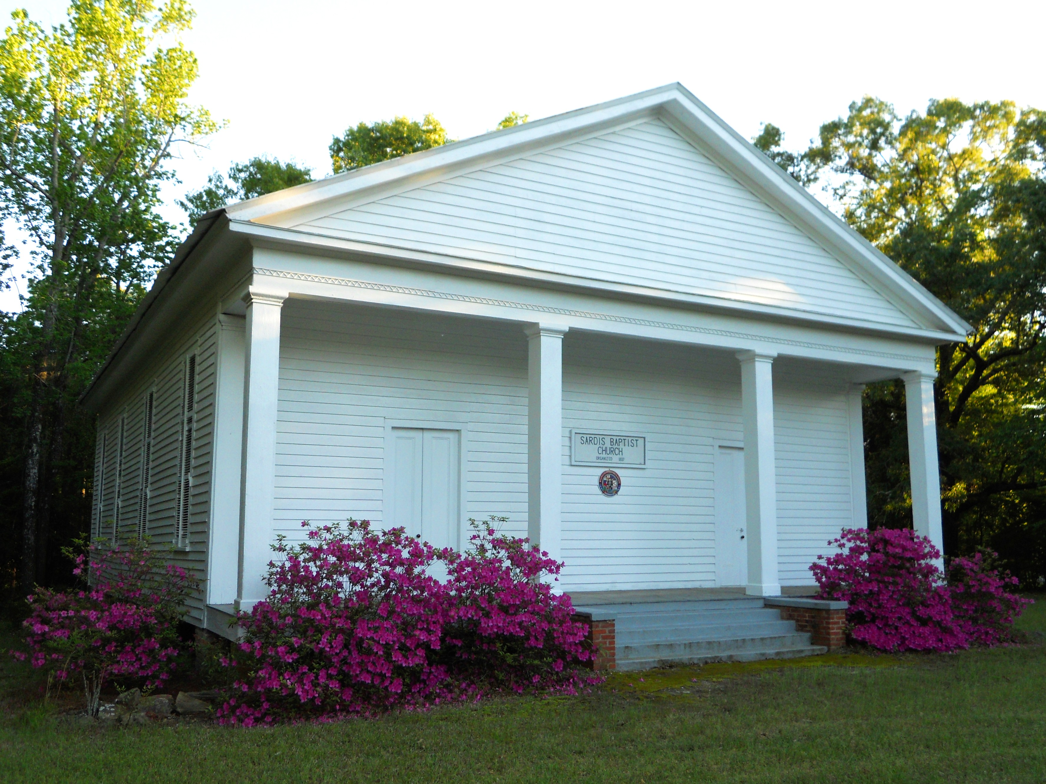 This is a photograph of the Sardis Baptist Church located near Union Springs, Alabama.